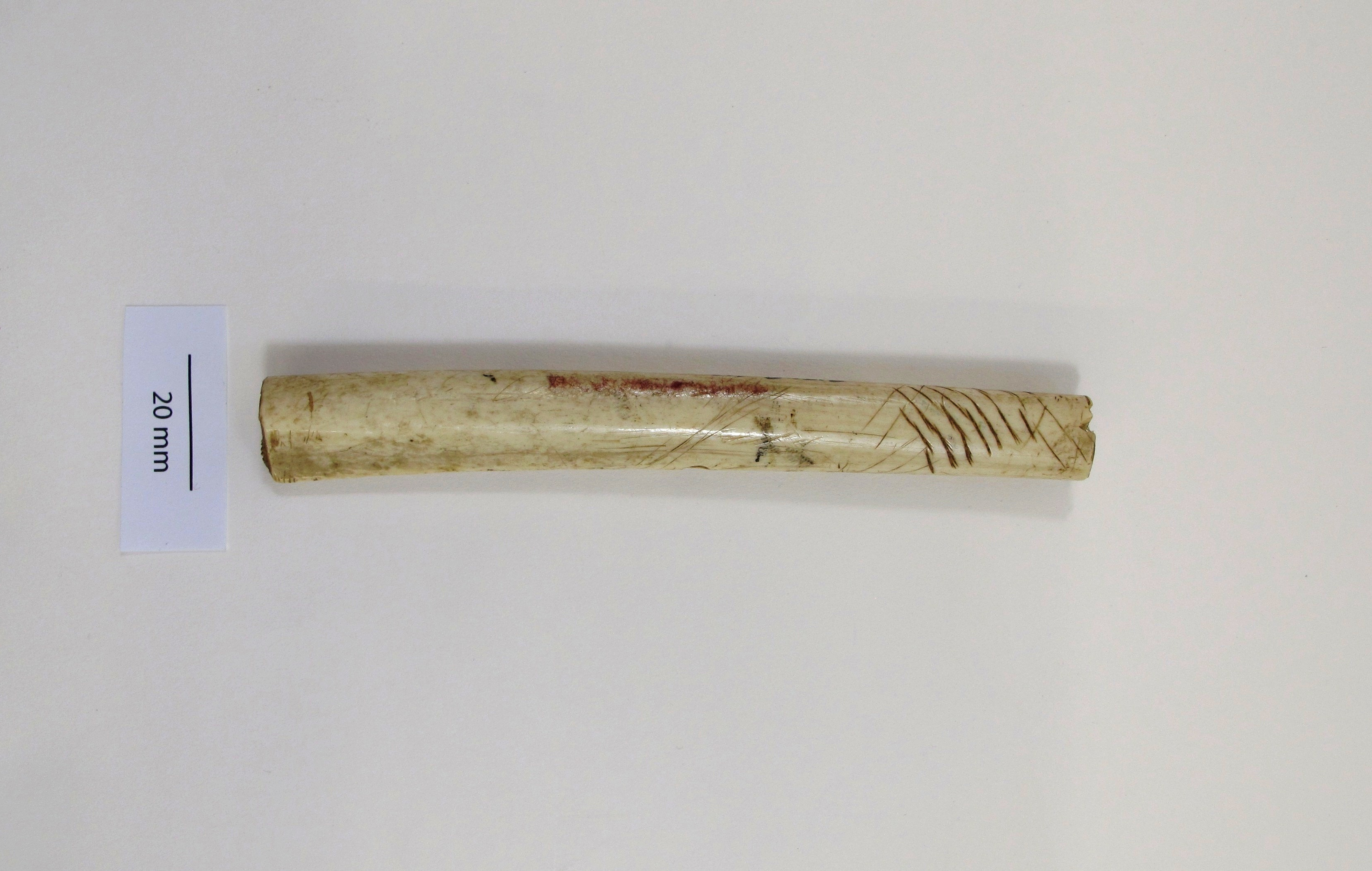 Toggle or flute. Small perforation centrally placed through one wall at the apex of the bone. Ends cut but not ground. Indentation shows the start of another perforation to one side of the existing perforation. Parallel diagonal scratches at one end. Previously called a kuaouo but possibly not. Bird bone.